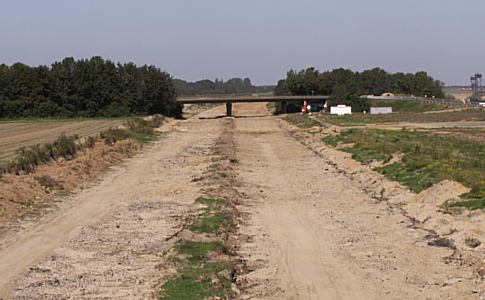 Deconstructed Highway near Grevenbroich, Germany.